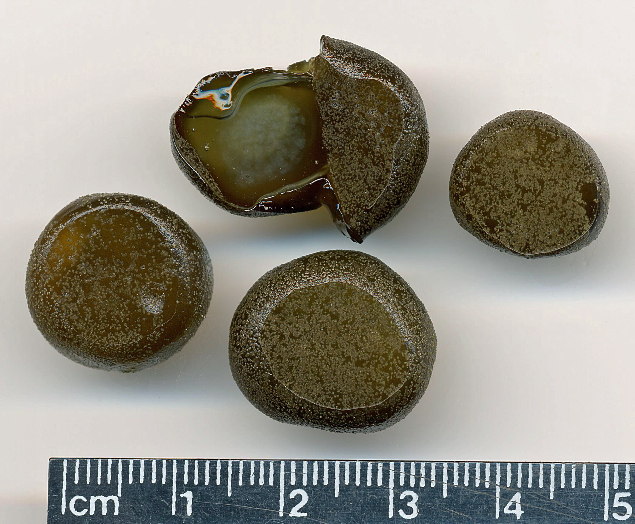 Several "Mare's eggs" on a desktop scanner; one "ball" has been opened to demonstrate the jelly inside live. These are colonies of the cyanobacteria species Nostoc pruniforme. (Determination was microscopically confirmed by Professor Dr Ludwig Kies, Hamburg.) Note: Many other single-celled organisms also form gelatinous colonies in spherules. A reliable determination is only possible by microscope! The shown species is rather rare today.